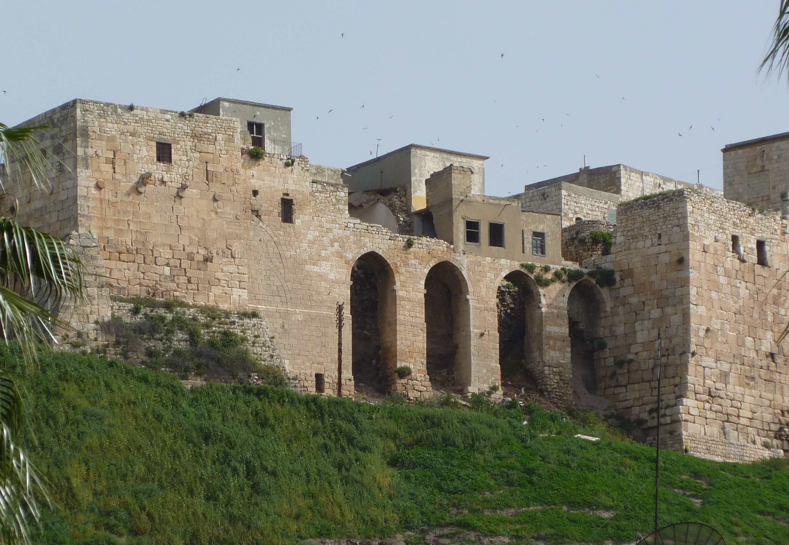 Fortress of Qalat el-Mudiq, Syria